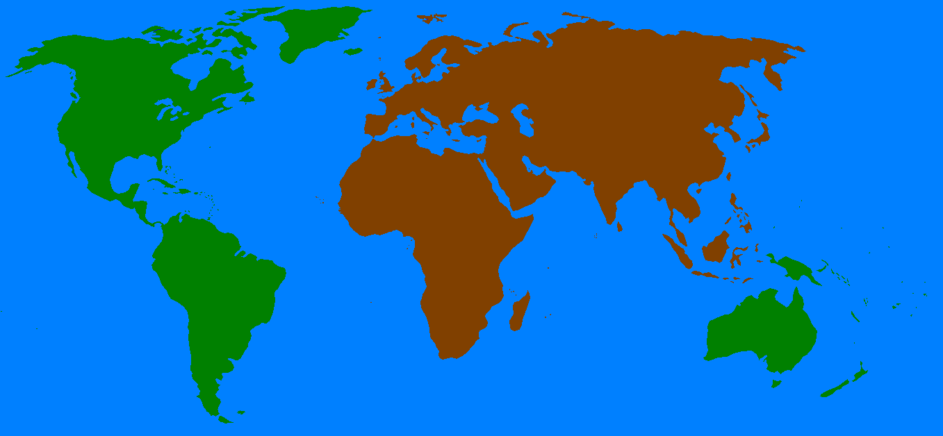 A map showing the two worlds- The Old World (Eurasia, Africa, and Oceania) and New World (America) Brown= Old World Green= New World